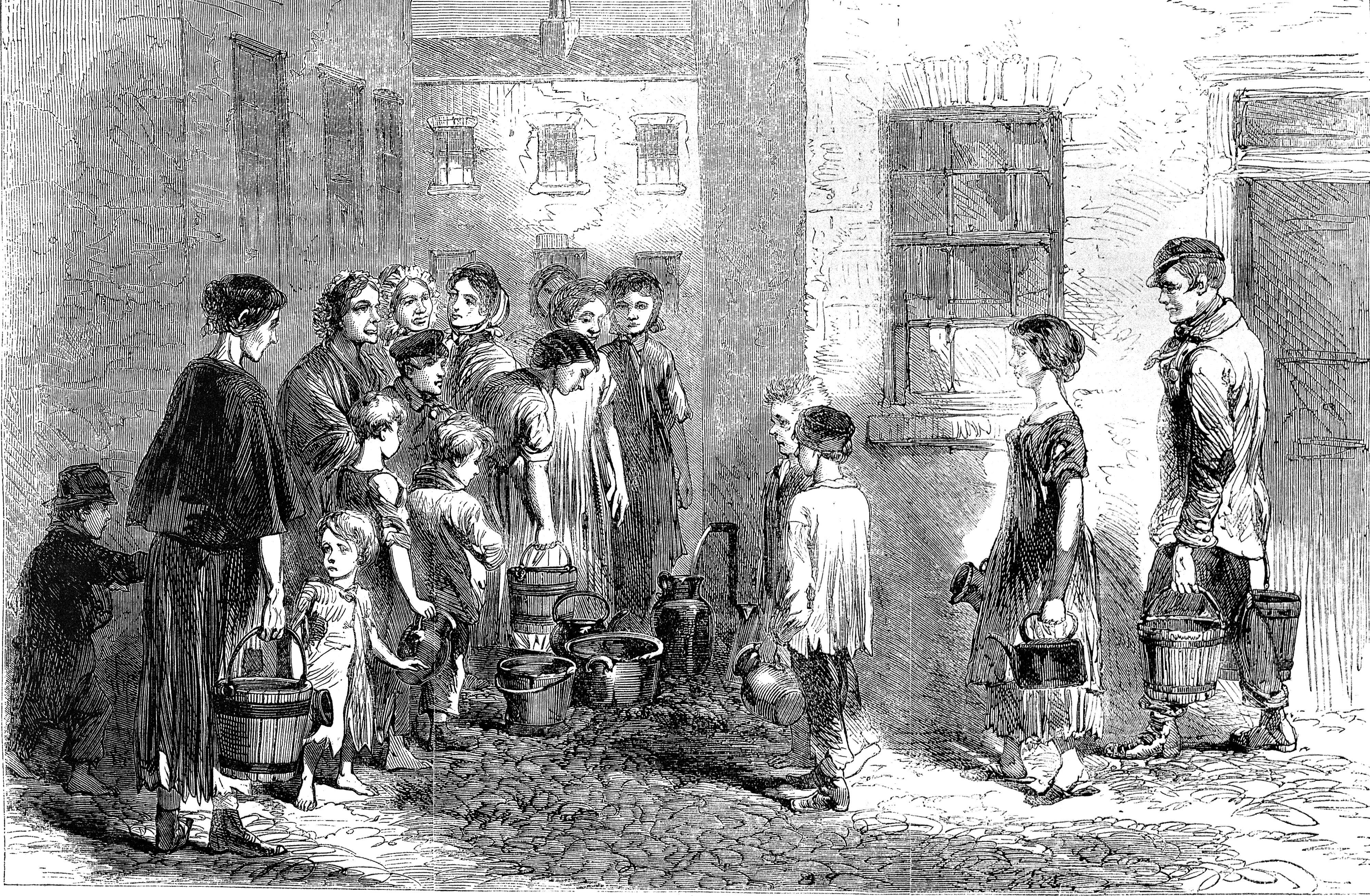 `Dwellings of the poor in Bethnal Green, the state of the water supply' Wellcome Images Keywords: Victorian; Public Health; Water Supply; Poverty